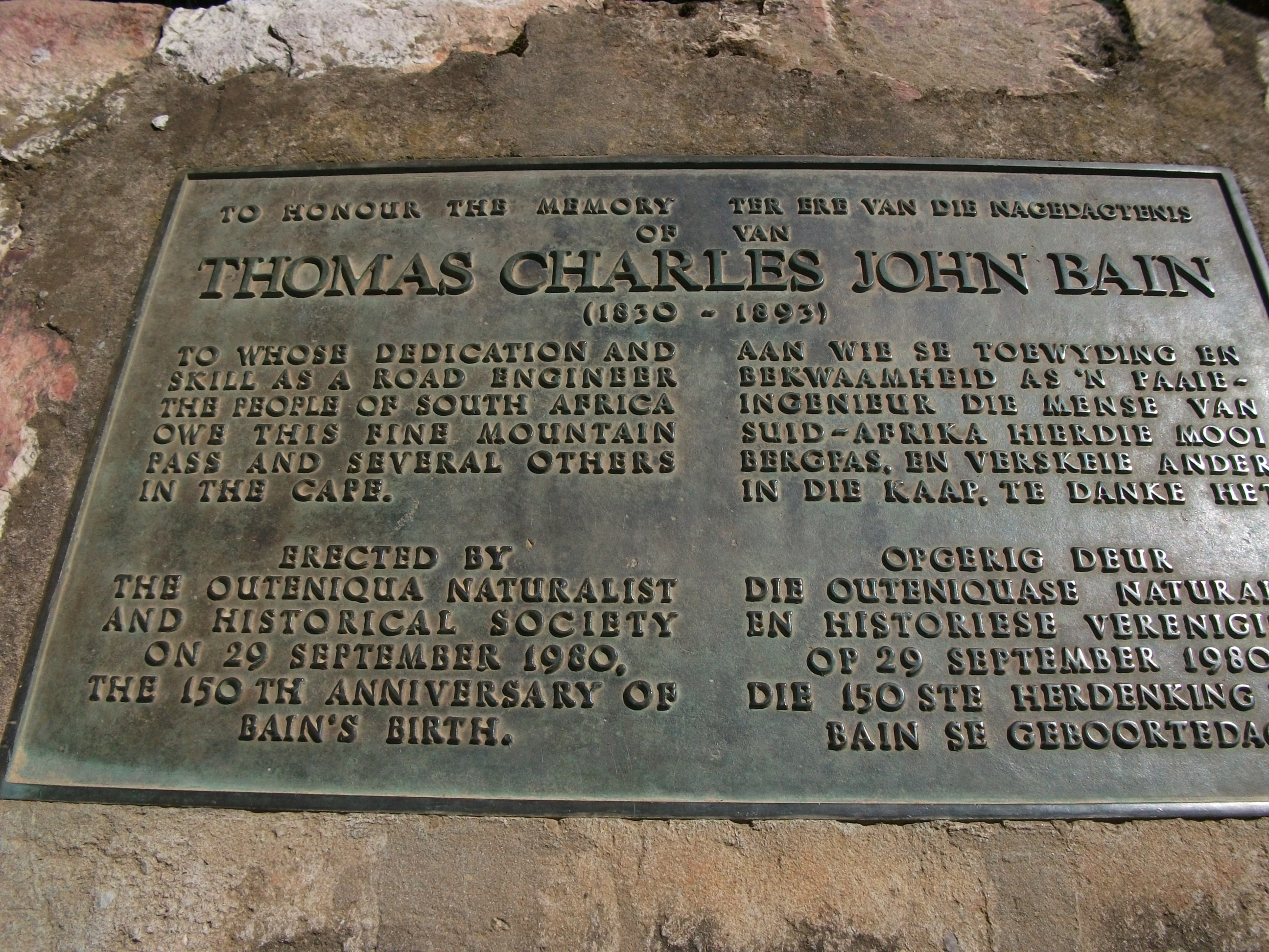 Memorial to Thomas Charles John Bain builder of the Prince Alfred's Pass.